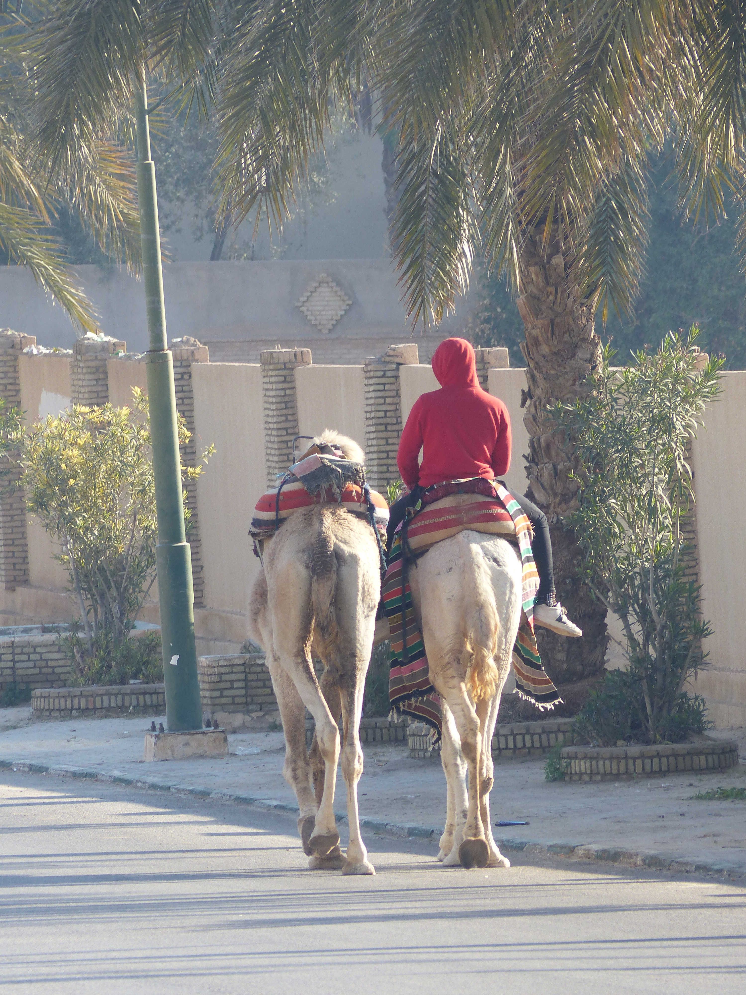 Tozeur, Tunisia This is an image with the theme "Africa on the Move or Transport" from: Tunisia